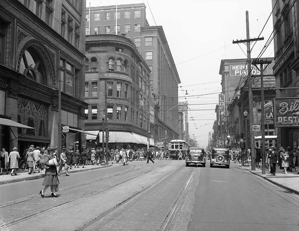 Three department stores in a row. On the left side of image (west side of street), Simpsons is in foreground, Woolworths is in middleground and Eaton's is in background. Yonge and Queen Streets, Toronto, Canada.